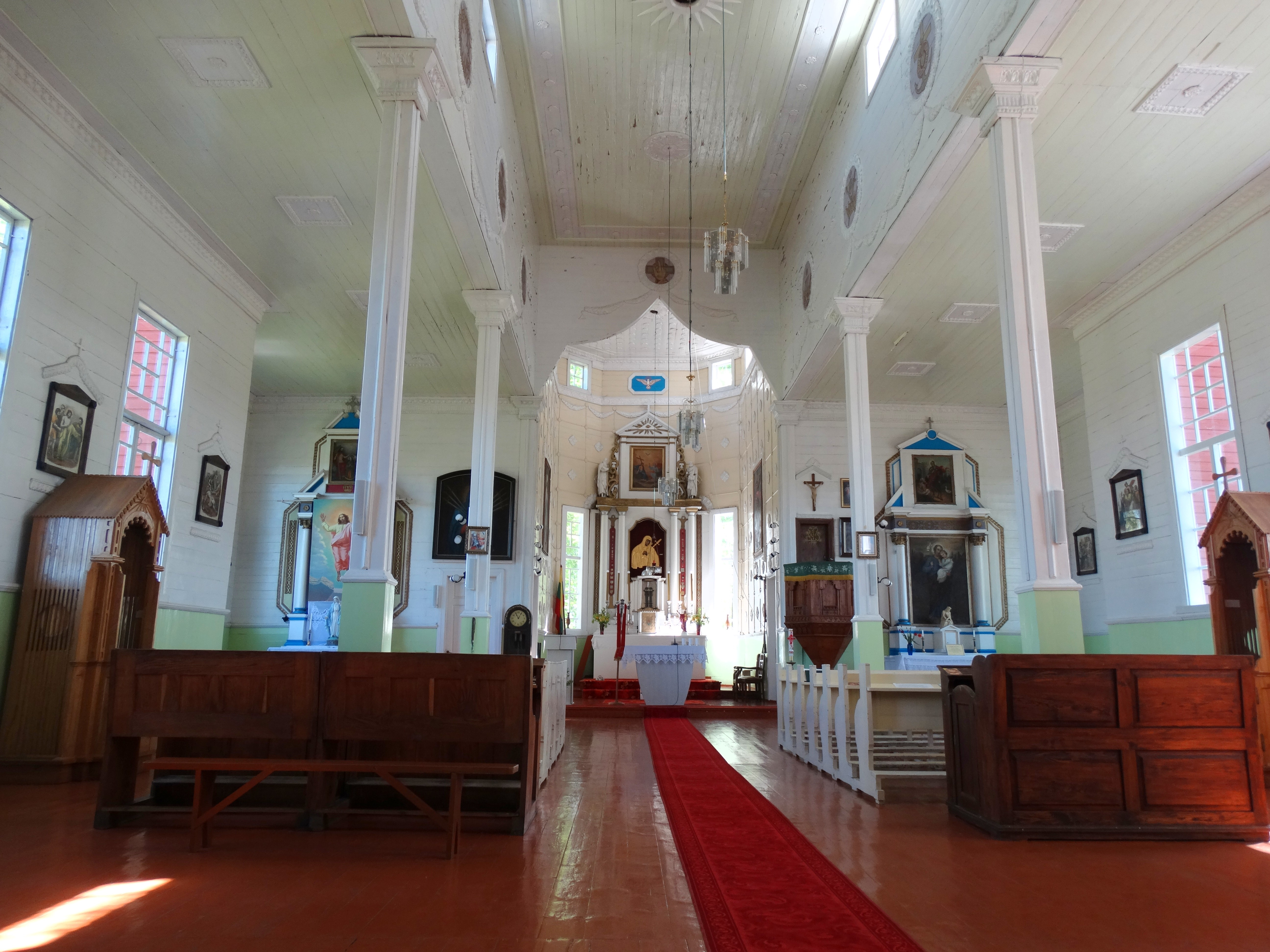 Holy Trinity church in Skudutiškis, Molėtai district, Lithuania